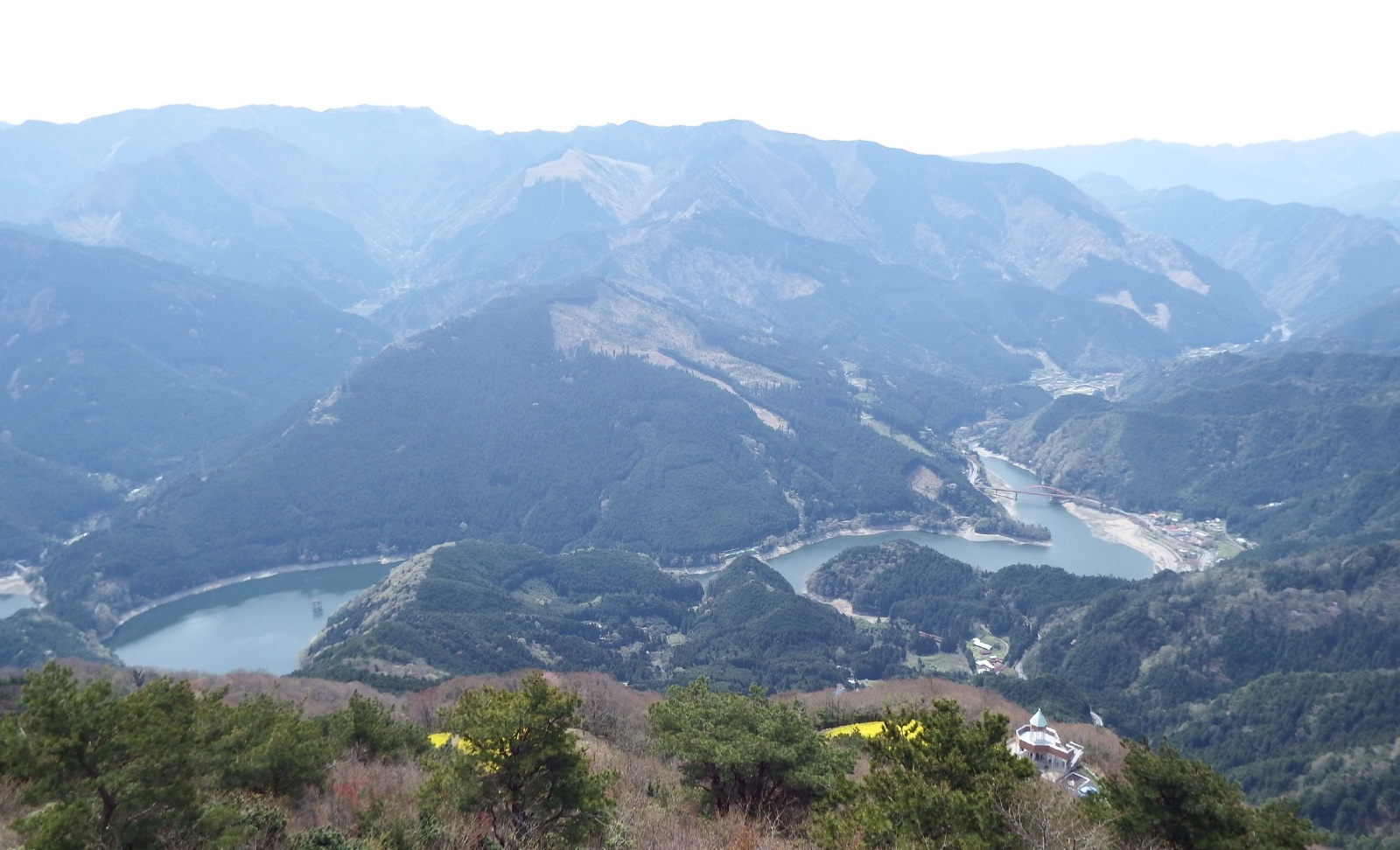 Lake Kinsha as seen from Mount Suiha